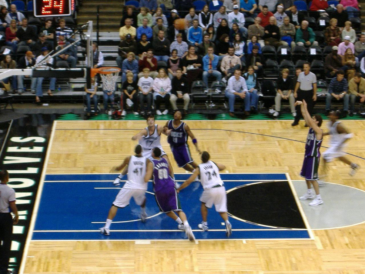 Milwaukee Bucks at Minnesota Timberwolves, Target Center, Minneapolis, Minnesota